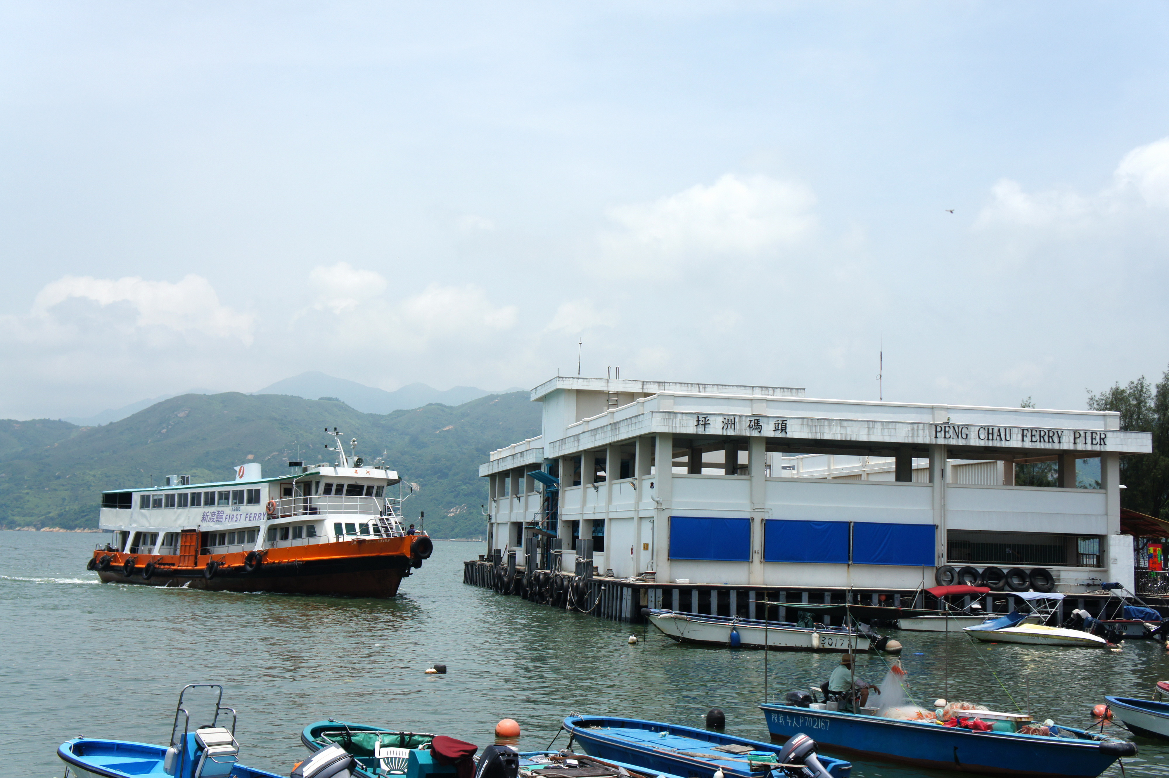 Peng Chau Ferry Pier, Peng Chau, New Territories, Hong Kong.